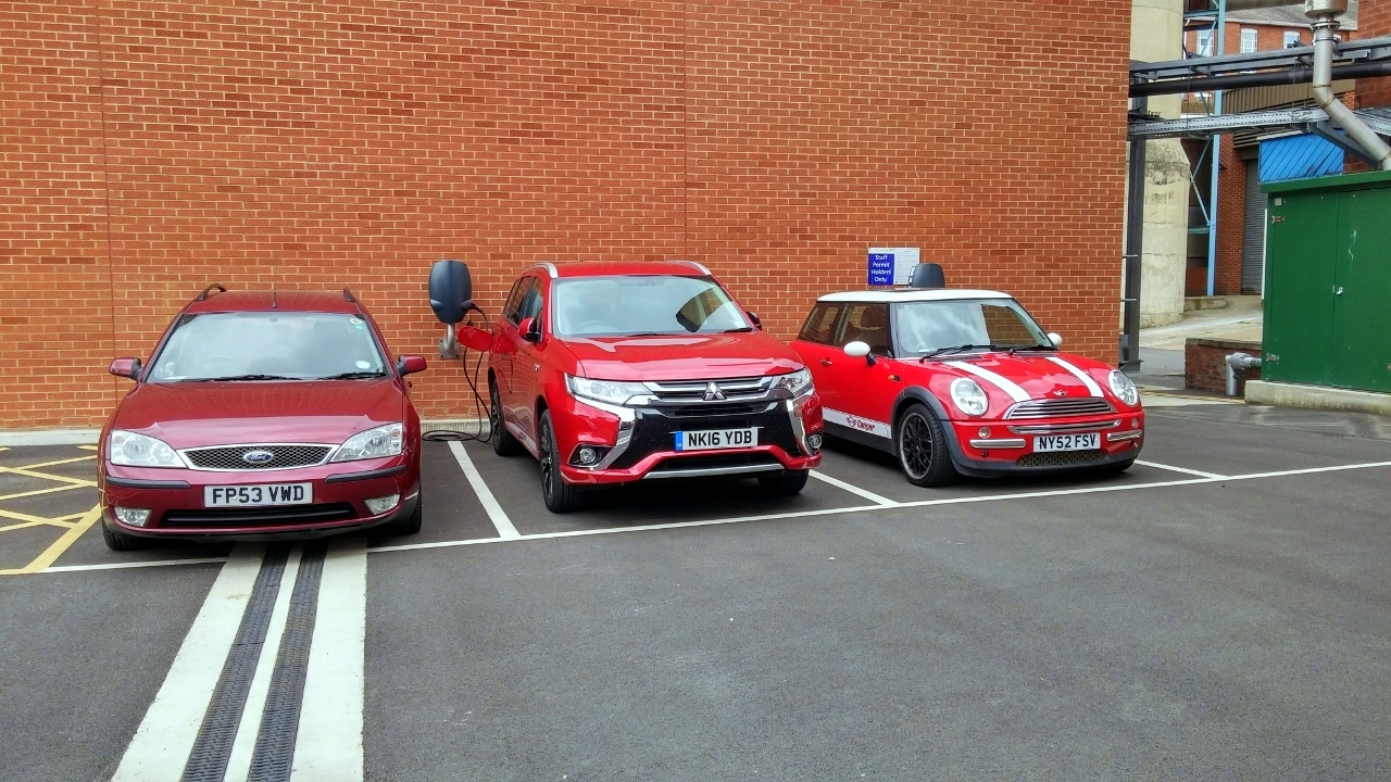 St James's University Hospital, Leeds